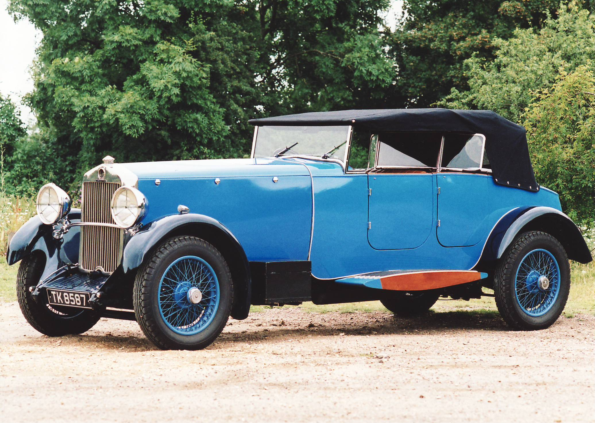 Lanchester motor car, 30hp Straight Eight 1930